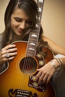 Official image of the artist.